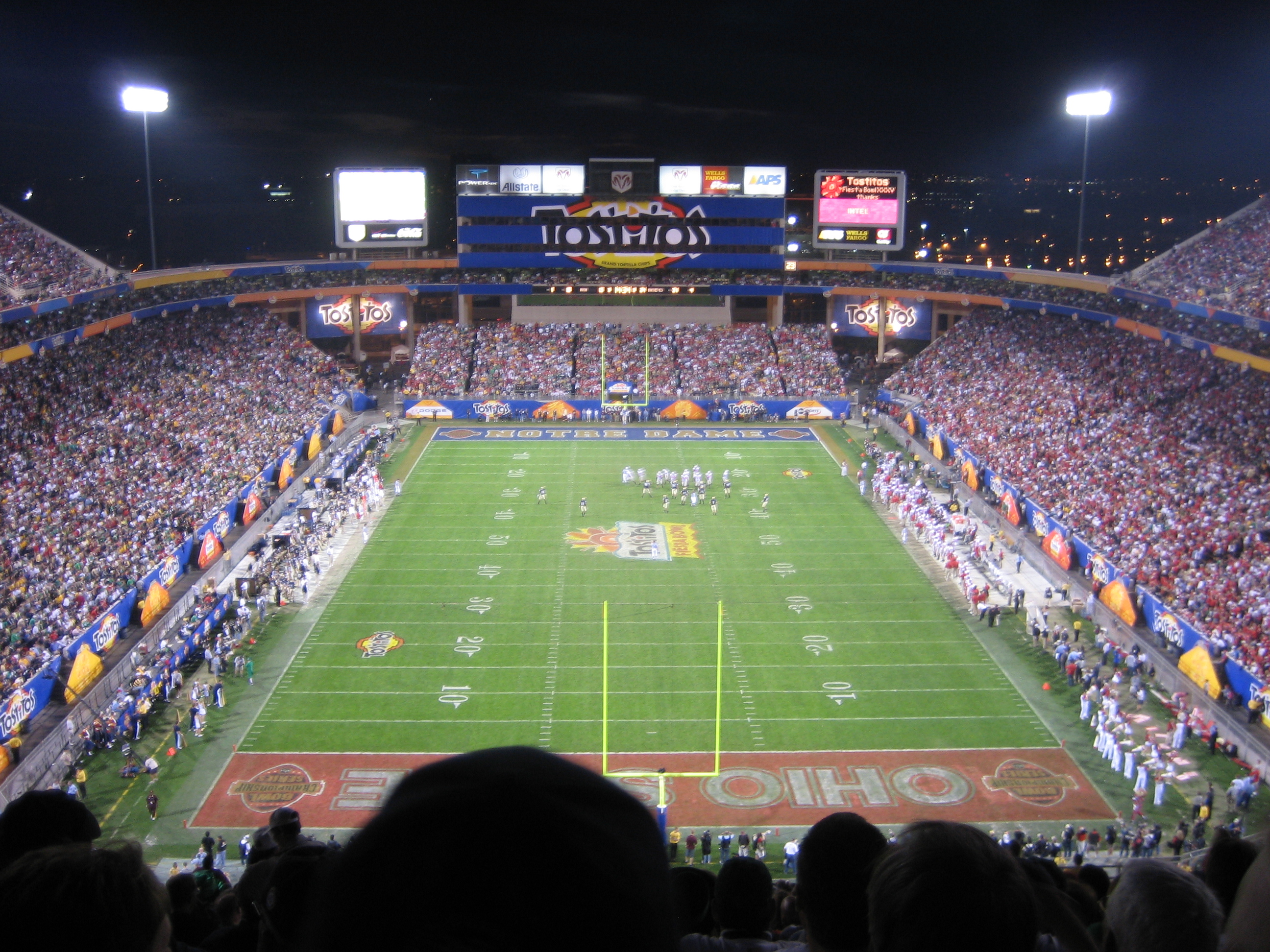 The playing field of the Fiesta Bowl 2006 in the Sun Devil Stadium in Tempe, Arizona